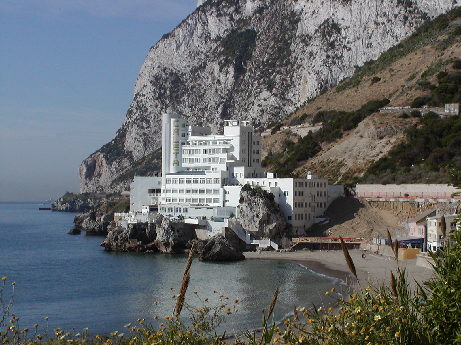 Gibraltar - Hotel Caleta is on the lonelier side of the rock overlooking Catalan Bay